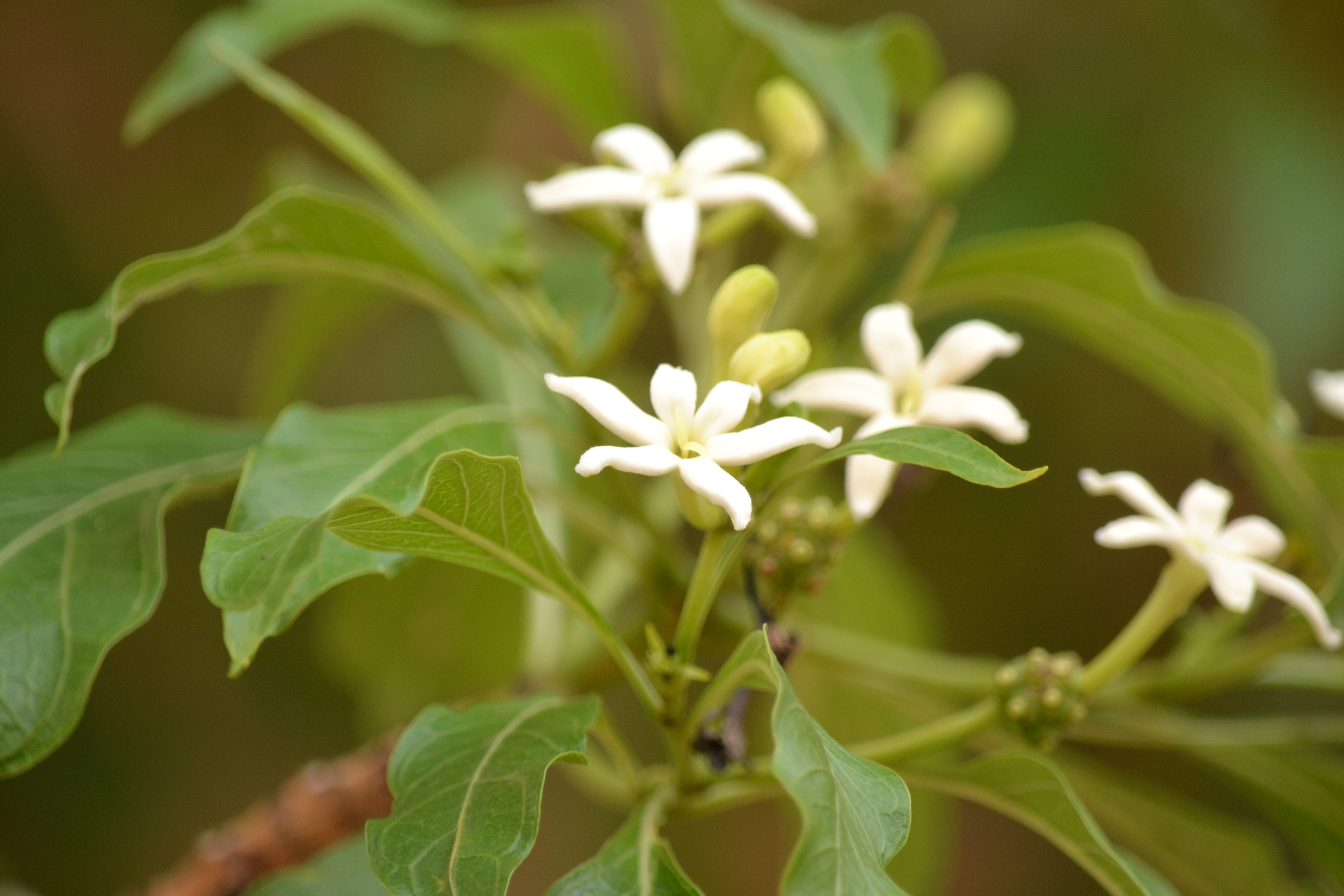 A tree belonging to the Rubiaceae family. Taken in Vadavalli, Coimbatore